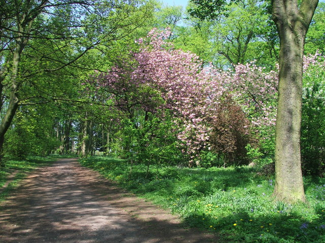 Blossom at Farnley Park. Looking NNW up the bridleway through the woods just S of Farnley Hall.